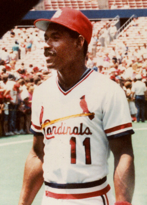 Ivan dejesus